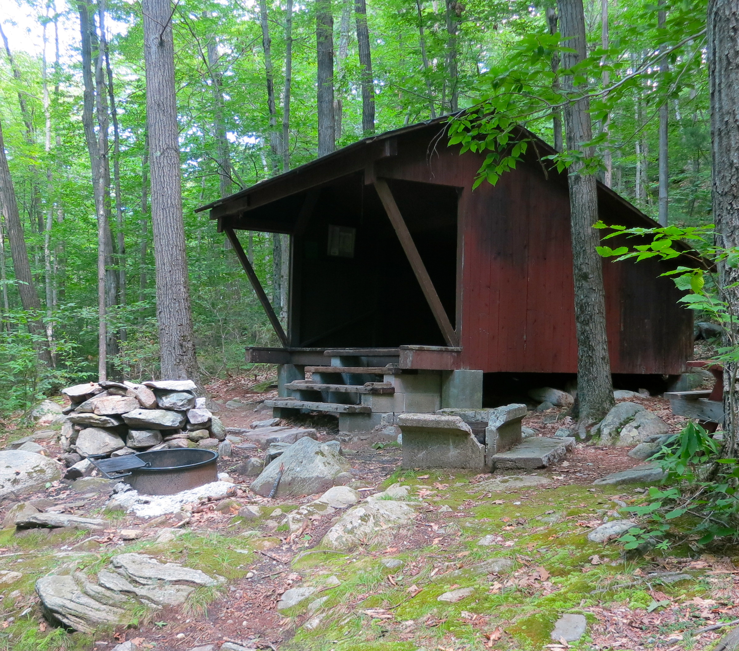 This lean-to is available for overnight camping at the DCR facility at Ruggles Pond.